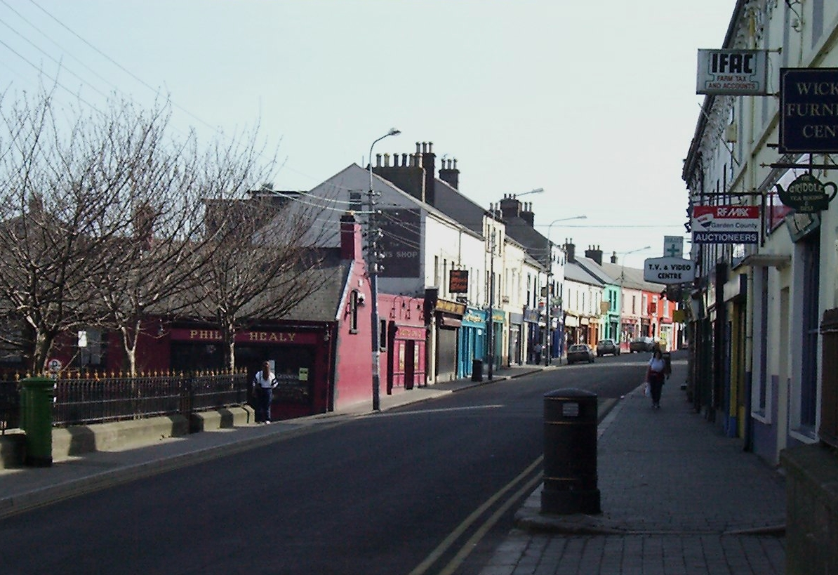 Main Street Wicklow Town photographed March 2000